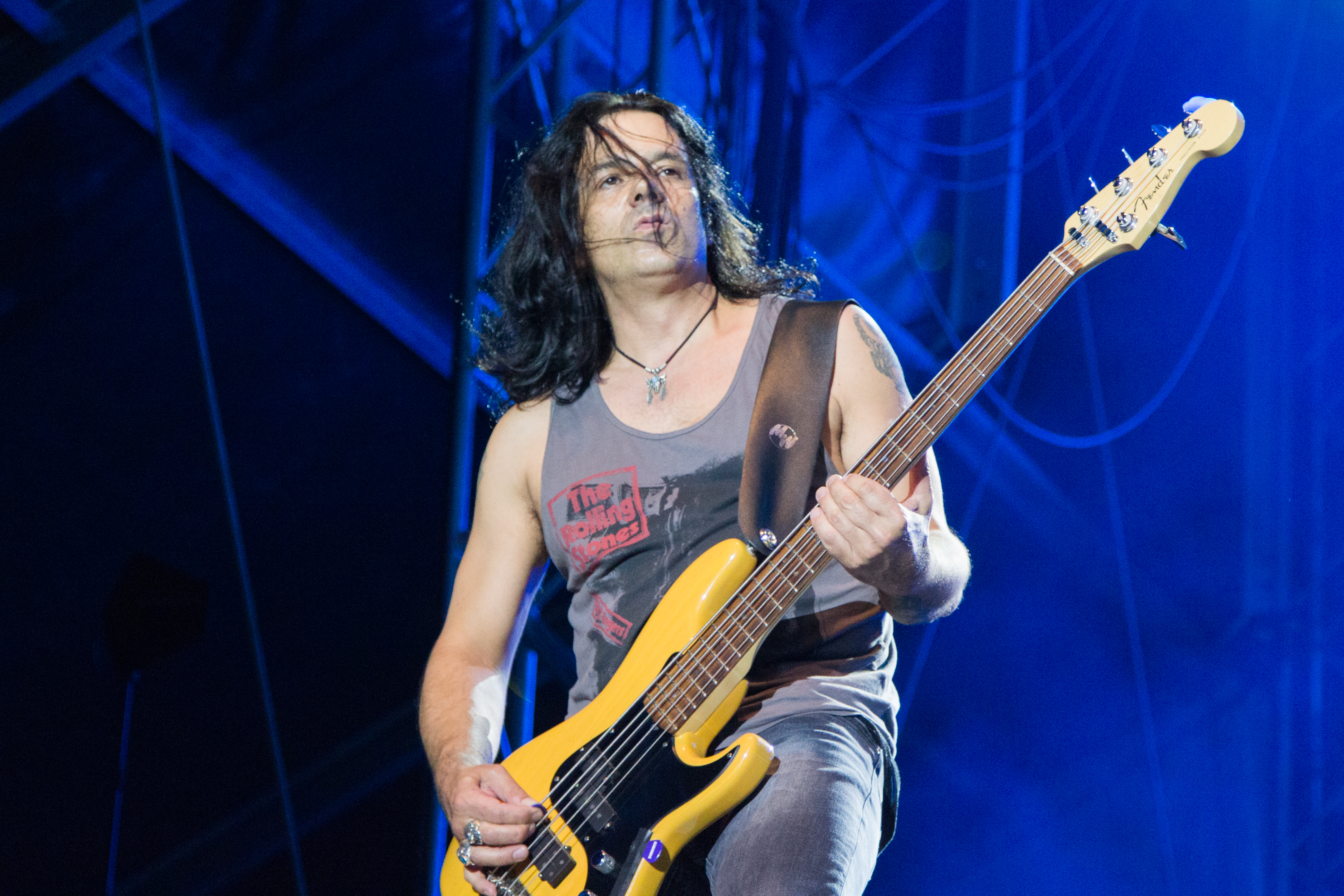 Paweł Mąciwoda from the Scorpions at the See-Rock Festival 2014